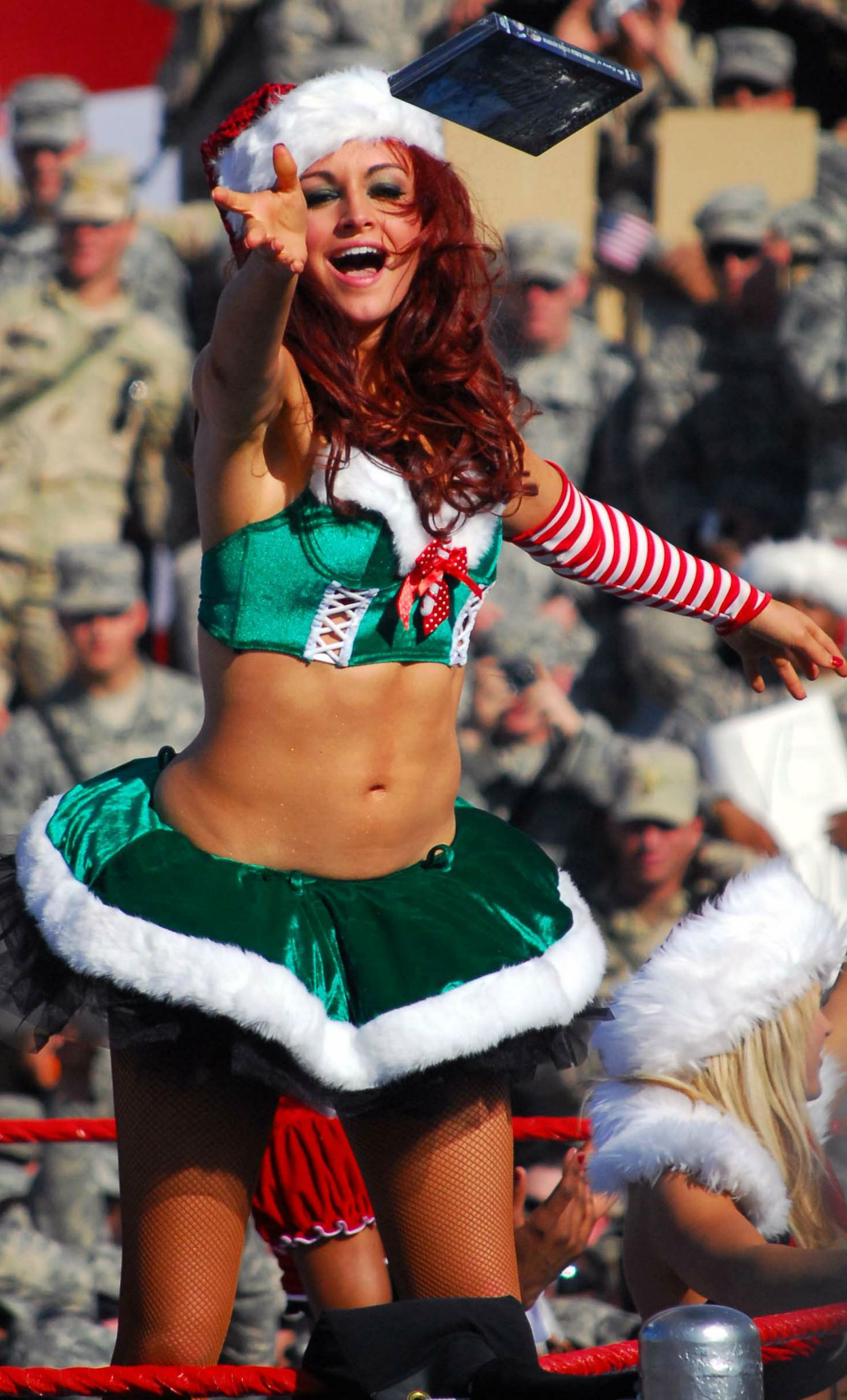 World Wrestling Entertainment diva Maria Kanellis throws early Christmas presents to troops attending the WWE's Tribute to the Troops main event on Camp Victory, Dec. 5.